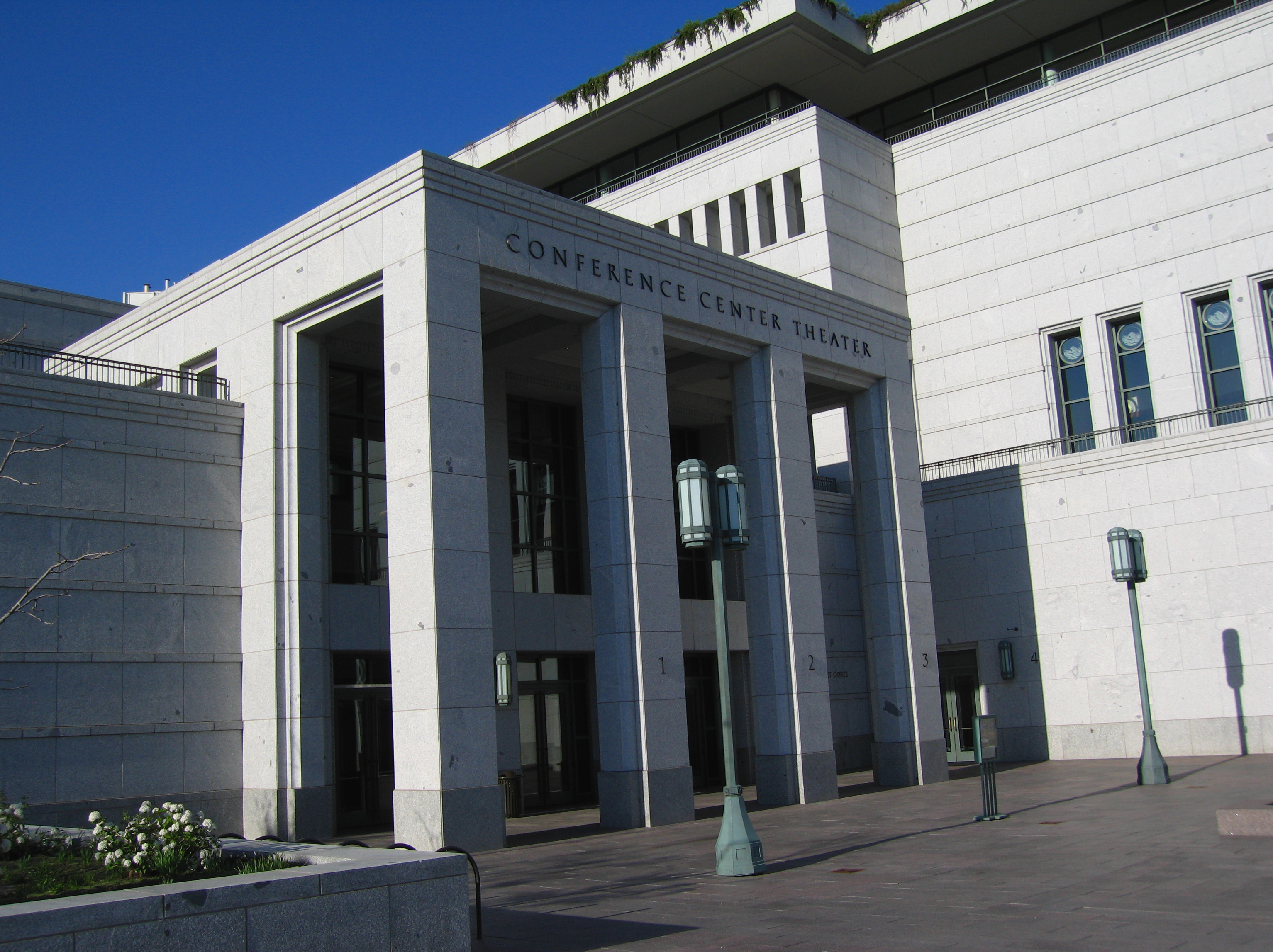 Conference Center Theater of the Church of Jesus Christ of Latter-day Saints, Salt Lake City, Utah by Ricardo630 Ricardo630 06:27, 21 April 2006 (UTC)